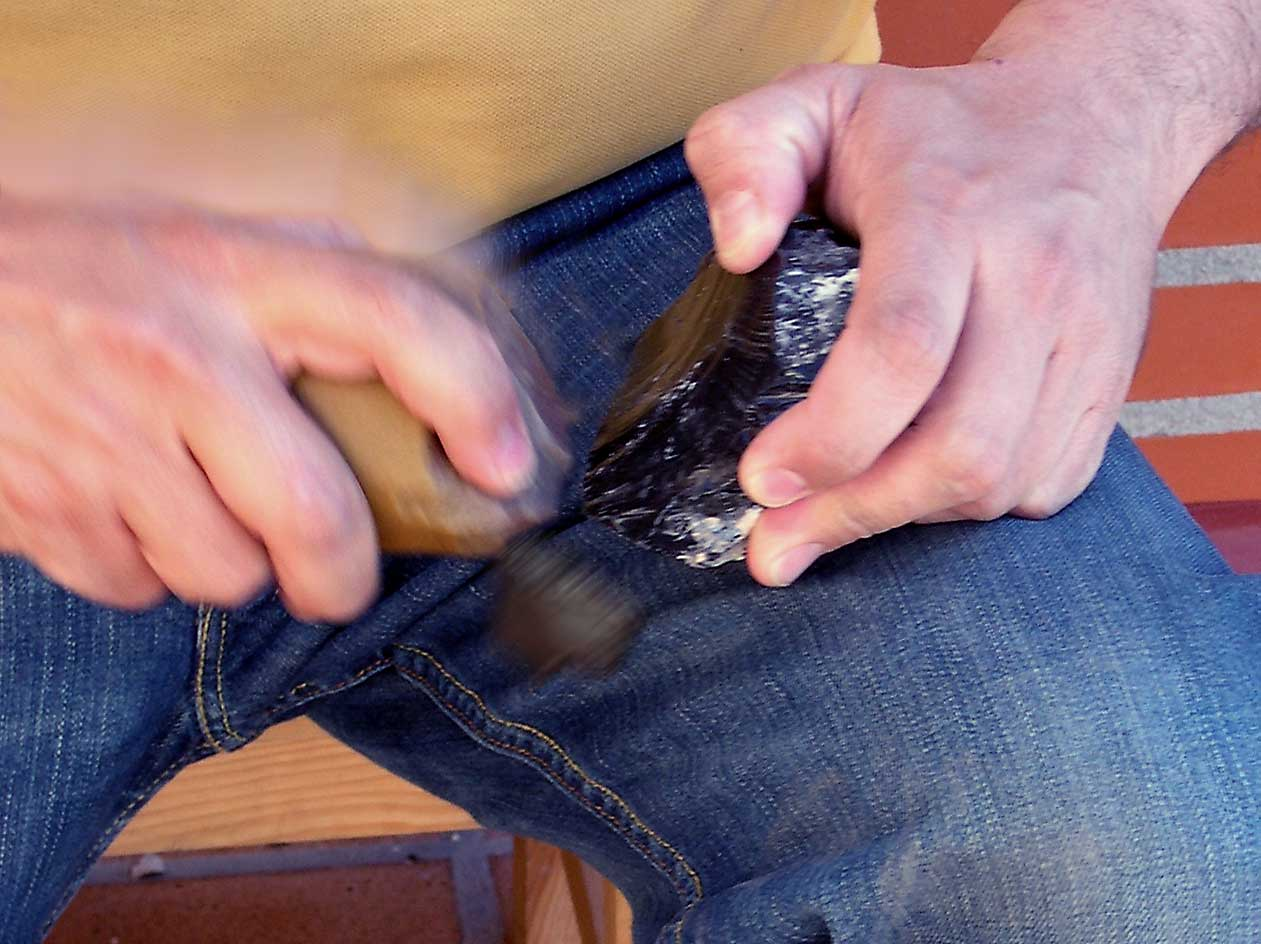 Direct percussion with hammersone, knapping experiment